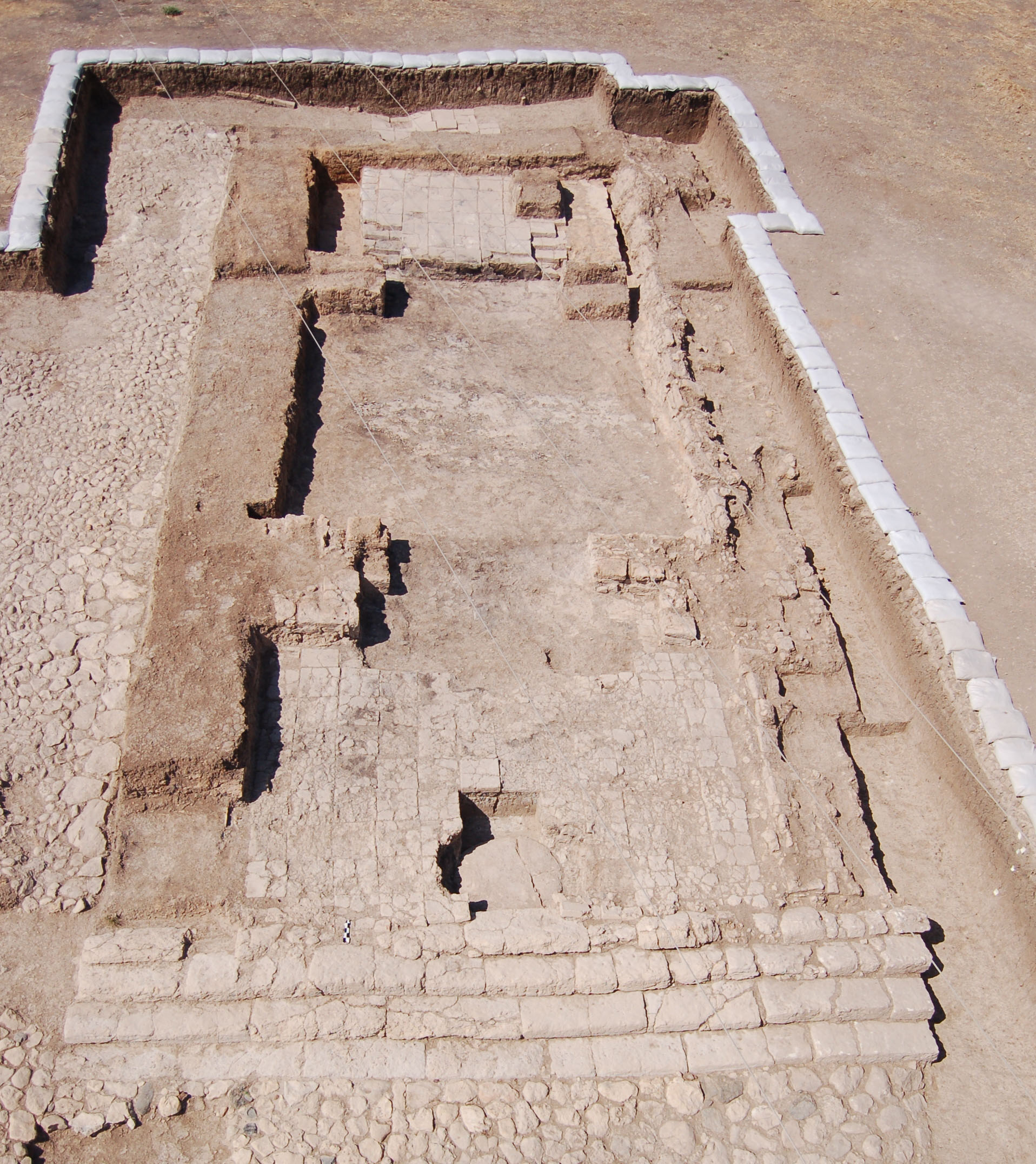 Iron Age Temple from Tell Tayinat